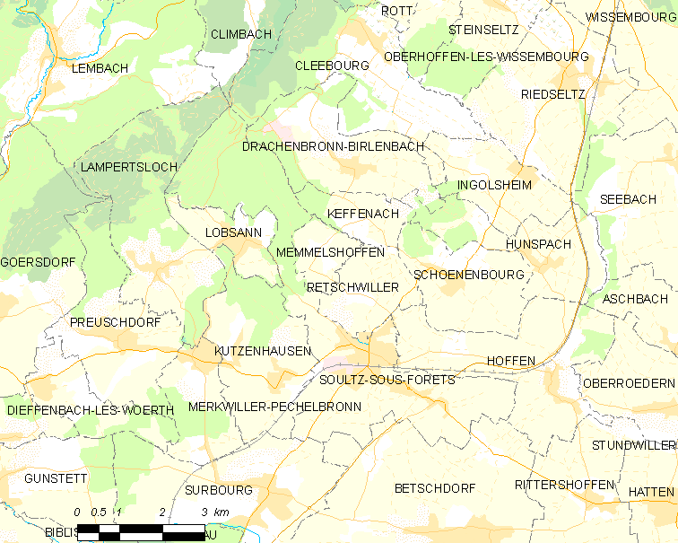 Map of French municipality